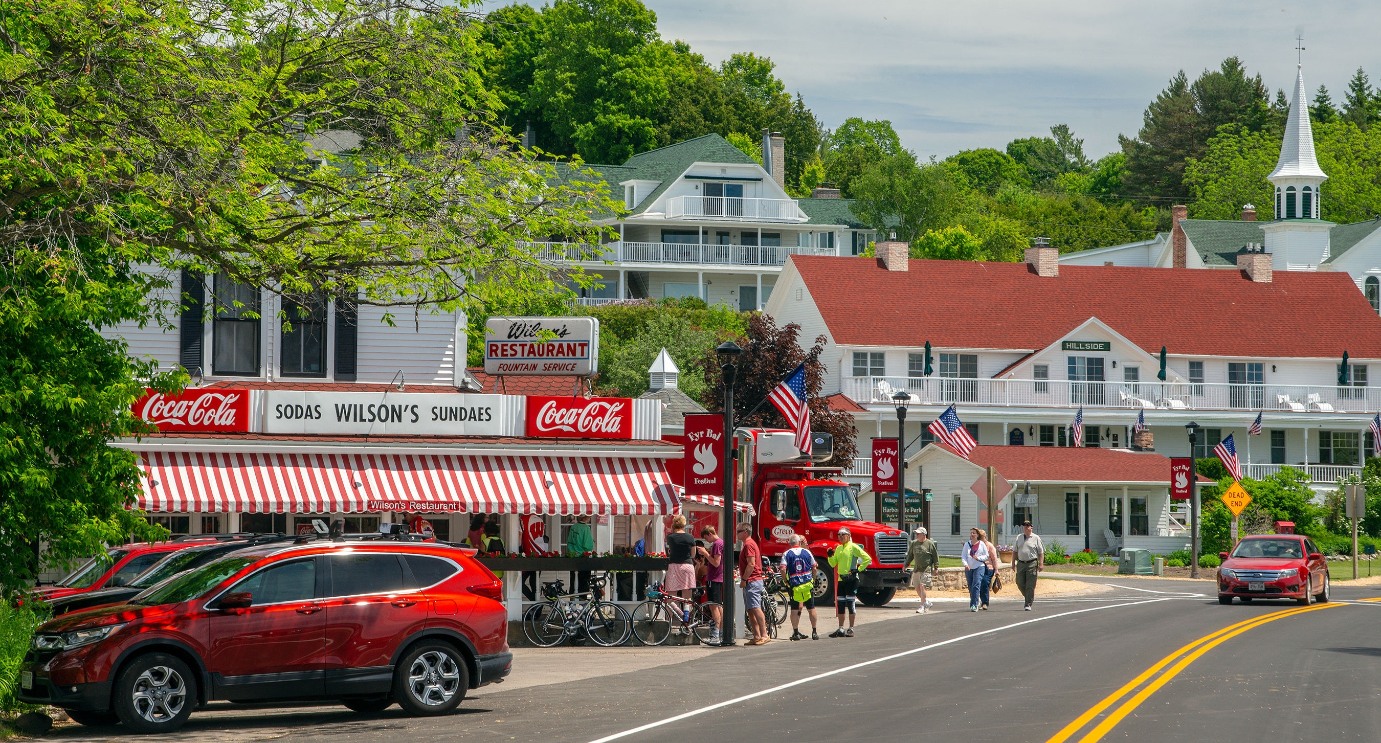 Typical architecture along Water St. (County Rd 42) in Ephraim, 2019